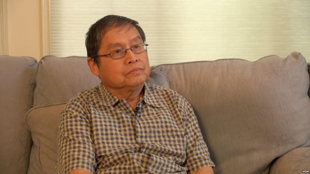 苏晓康六四事件25周年前接受美国之音专访